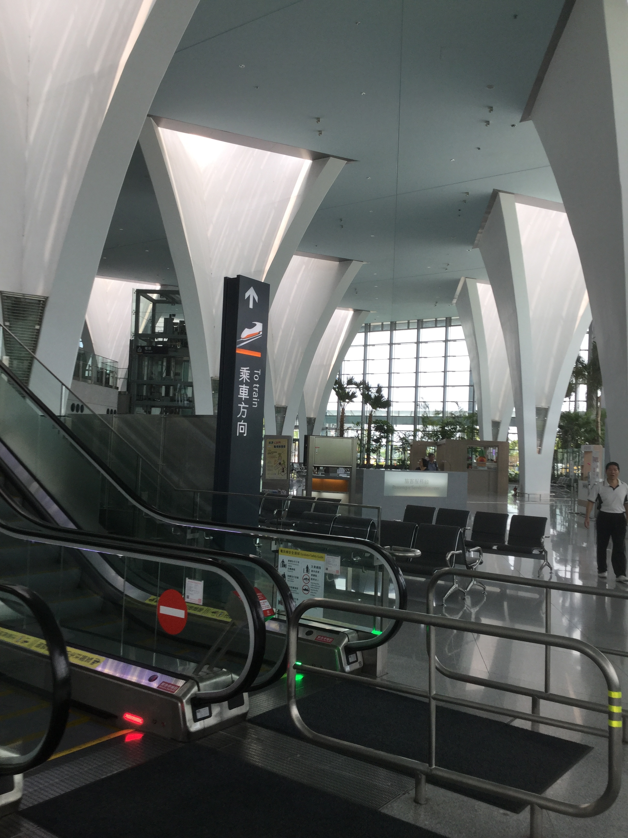 THSR Changhua Station concourse